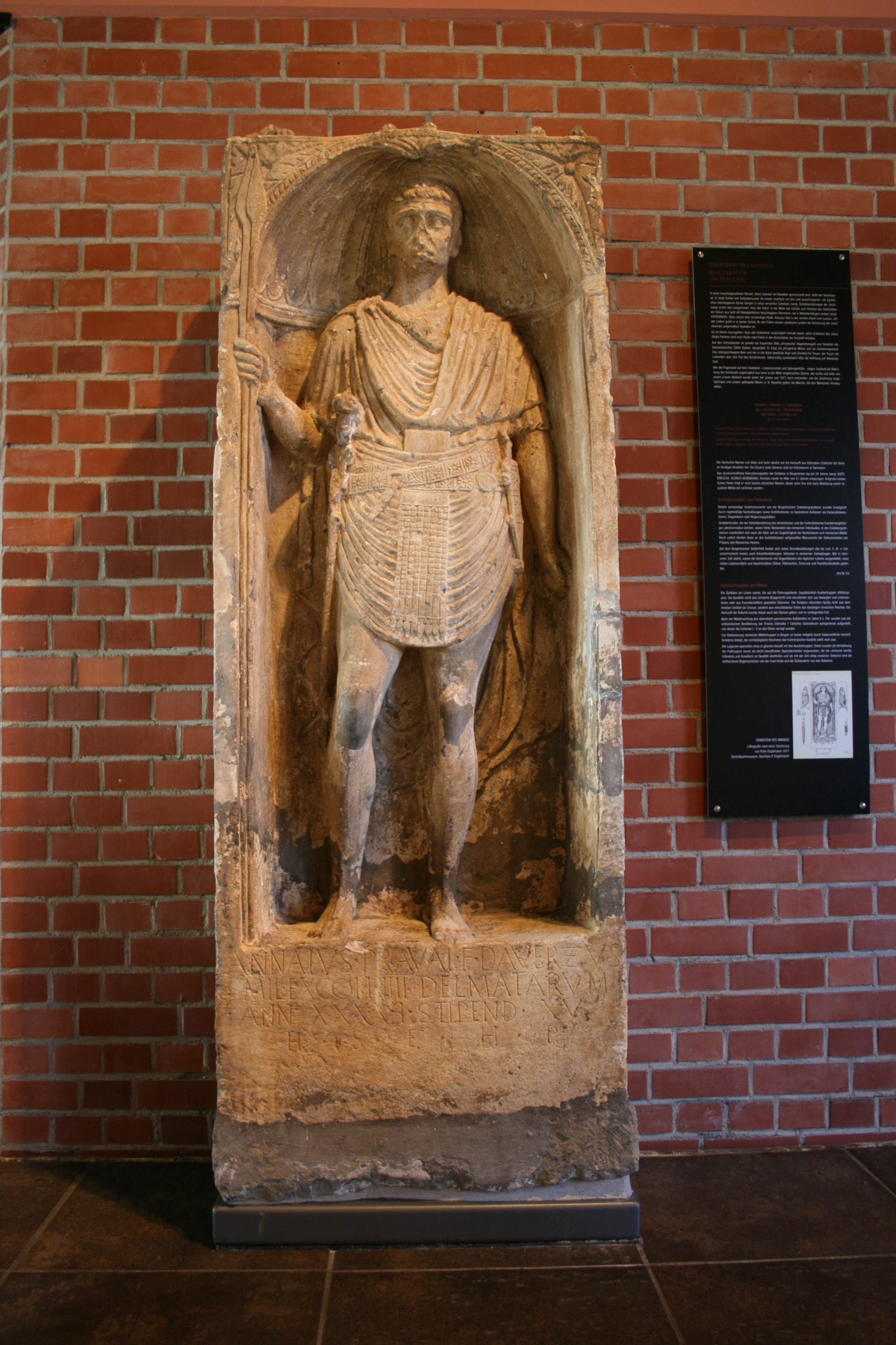 Gravestone of Annaius Daverzus, soldier in cohors IIII Delmatarum , discovered during the construction of Bingen (Rhein) Hauptbahnhof in 1860, nowadays in museum Römerhalle.